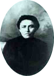 Helene Minkin around 1907